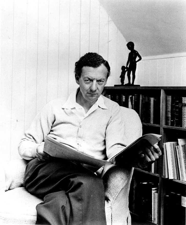 Publicity photograph of British composer Benjamin Britten